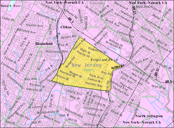 Census Bureau map of Nutley